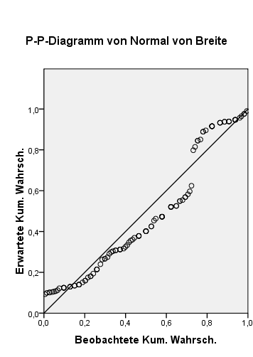 P-P-Plot of the width of warships; comparison with a normal distribution